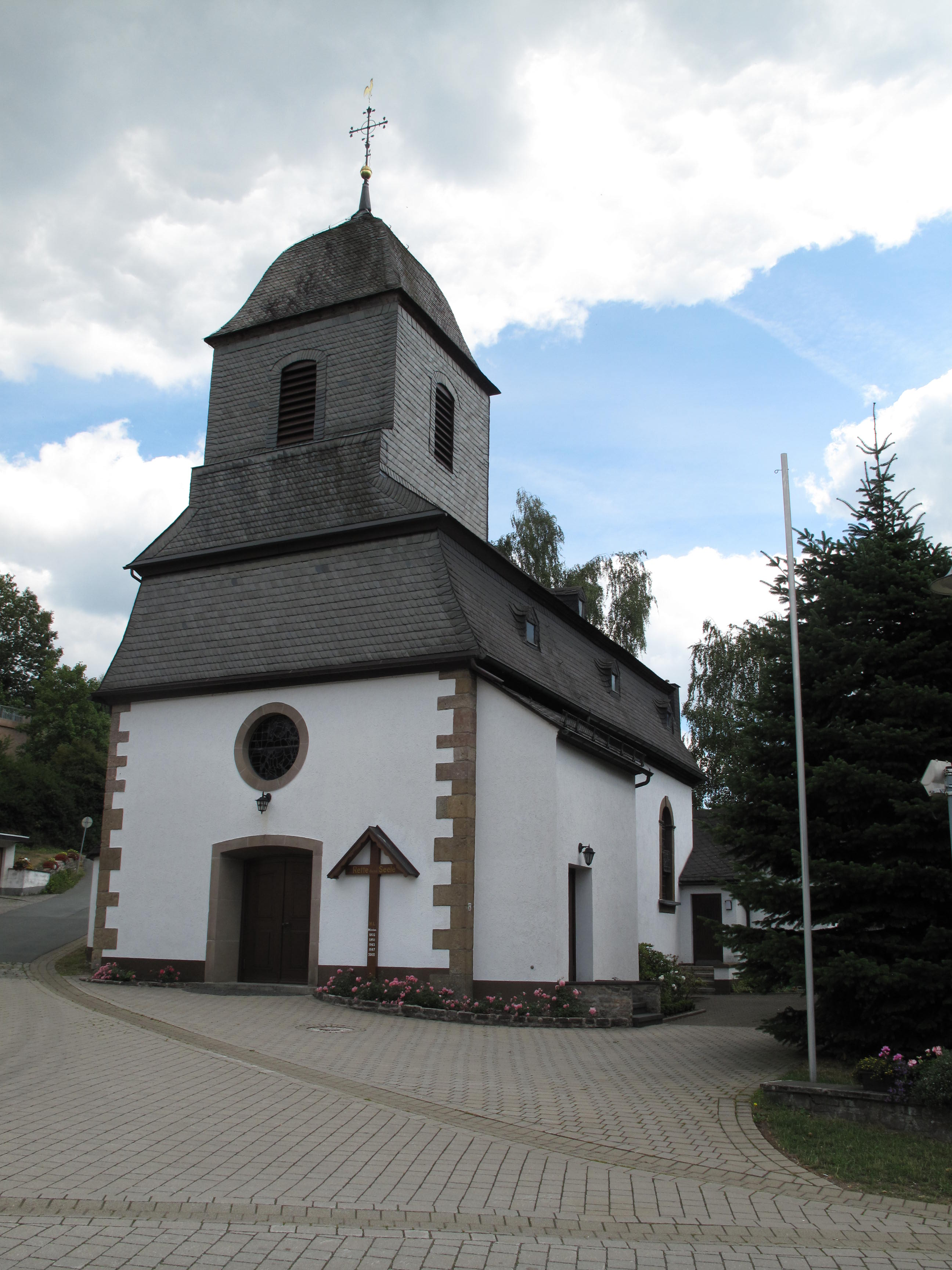 Referinghausen, chapel